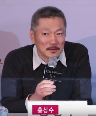 Hong Sangsoo at a press conference on 13.3.2017.